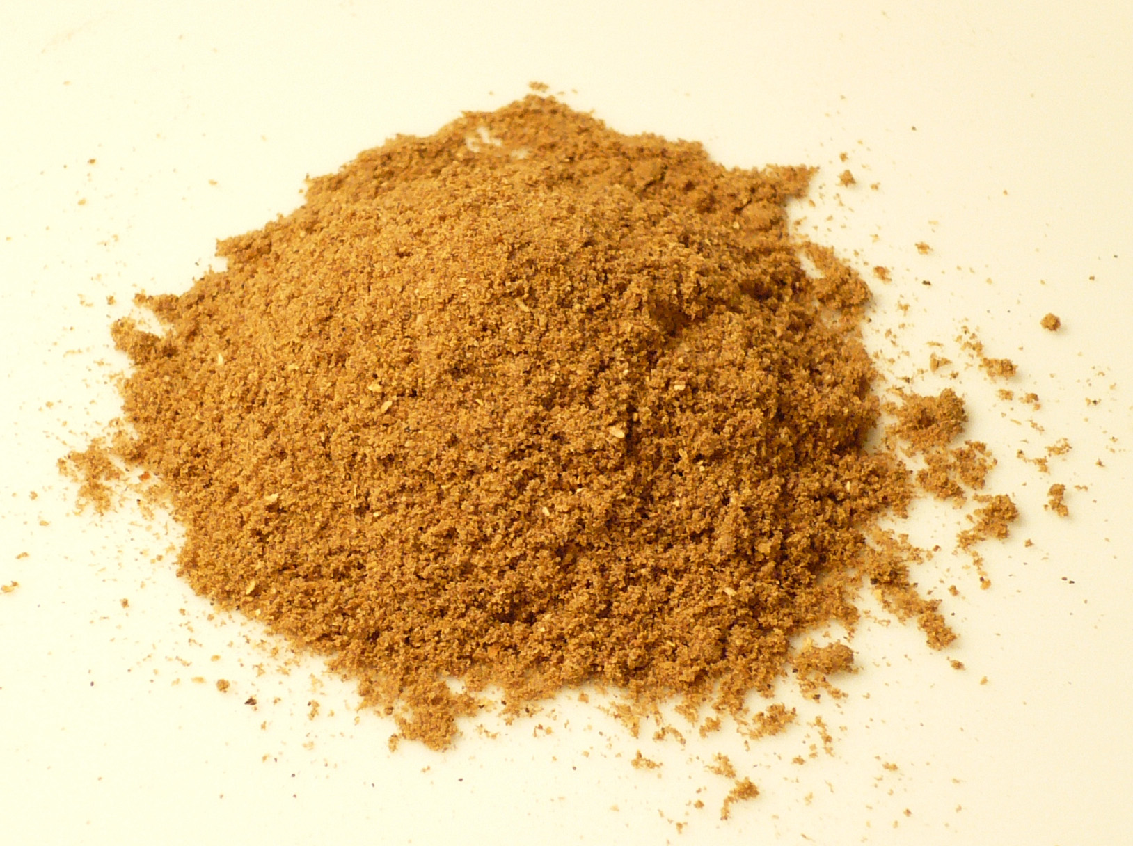 Homemade garam masala. Photo taken in Kent, Ohio with a Panasonic Lumix digital camera (model DMC-LS75).